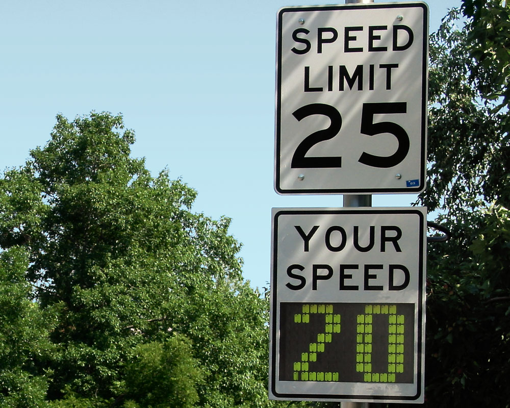 Close-up of a radar-based speed feedback sign, with the recorded speed beneath the limit. From the same set of photos as File:Radar speed sign.jpg and File:Radar speed sign - close-up - over limit.jpg, photographed in Boulder, Colorado, United States. This one is not the same sign, but it is of the same type. Possibly in the vicinity of 9th Street.